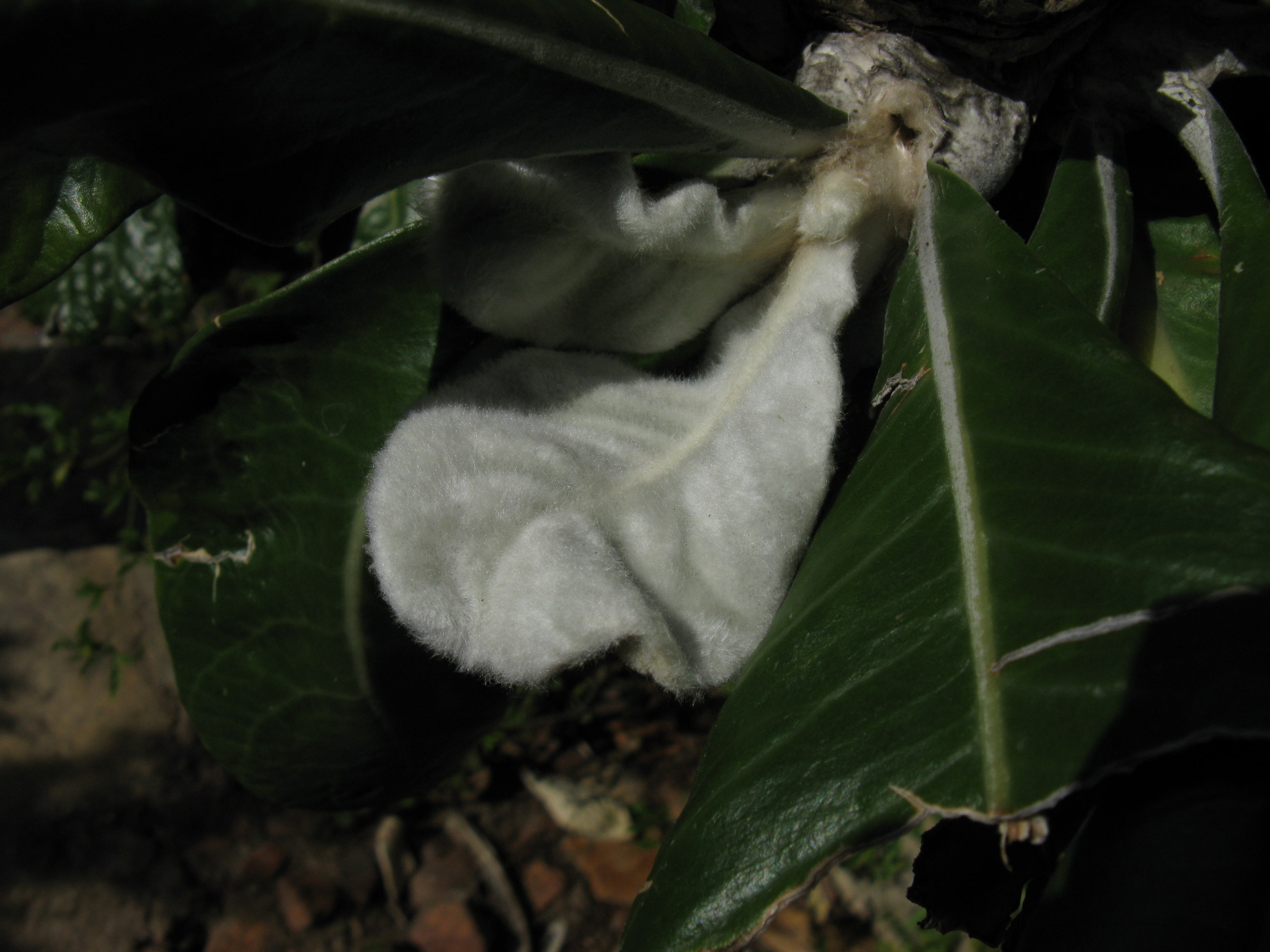 Oldenburgia grandis This specimen was photographed in Kirstenbosch, near Cape Town. Until it is near its full size, the growing leaf is densely felted in white.